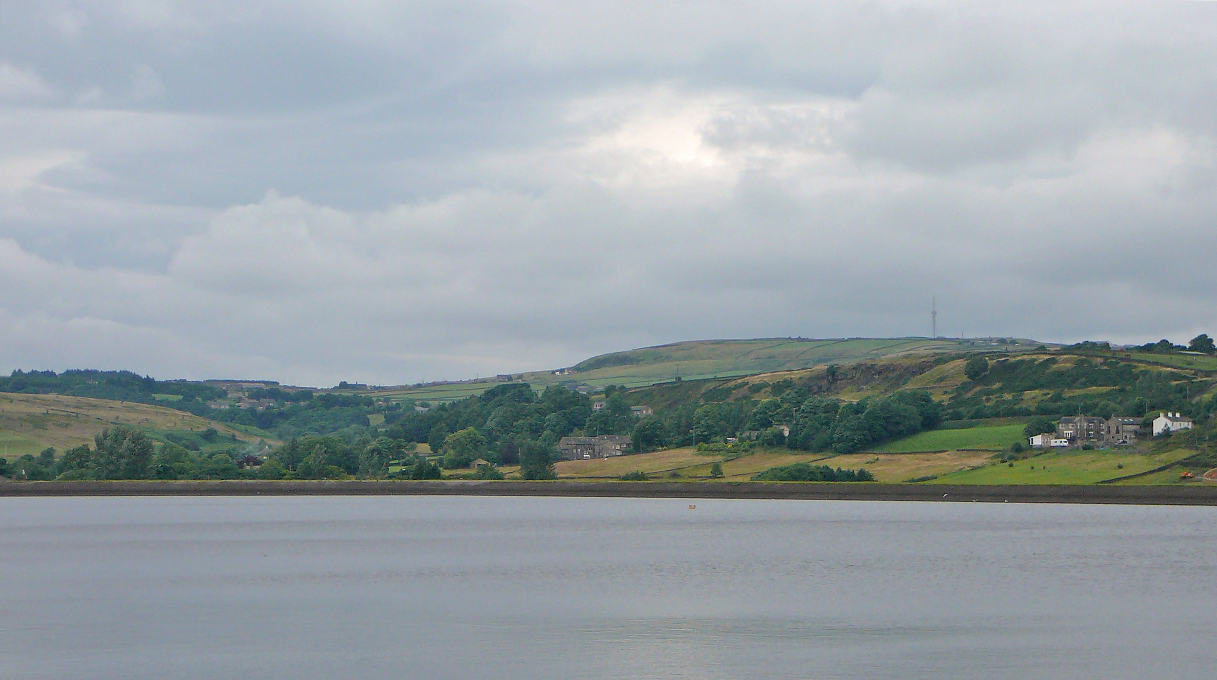 Mixenden Reservoir in Mixenden, West Yorkshire. Taken on Sunday the 25th of July 2010.